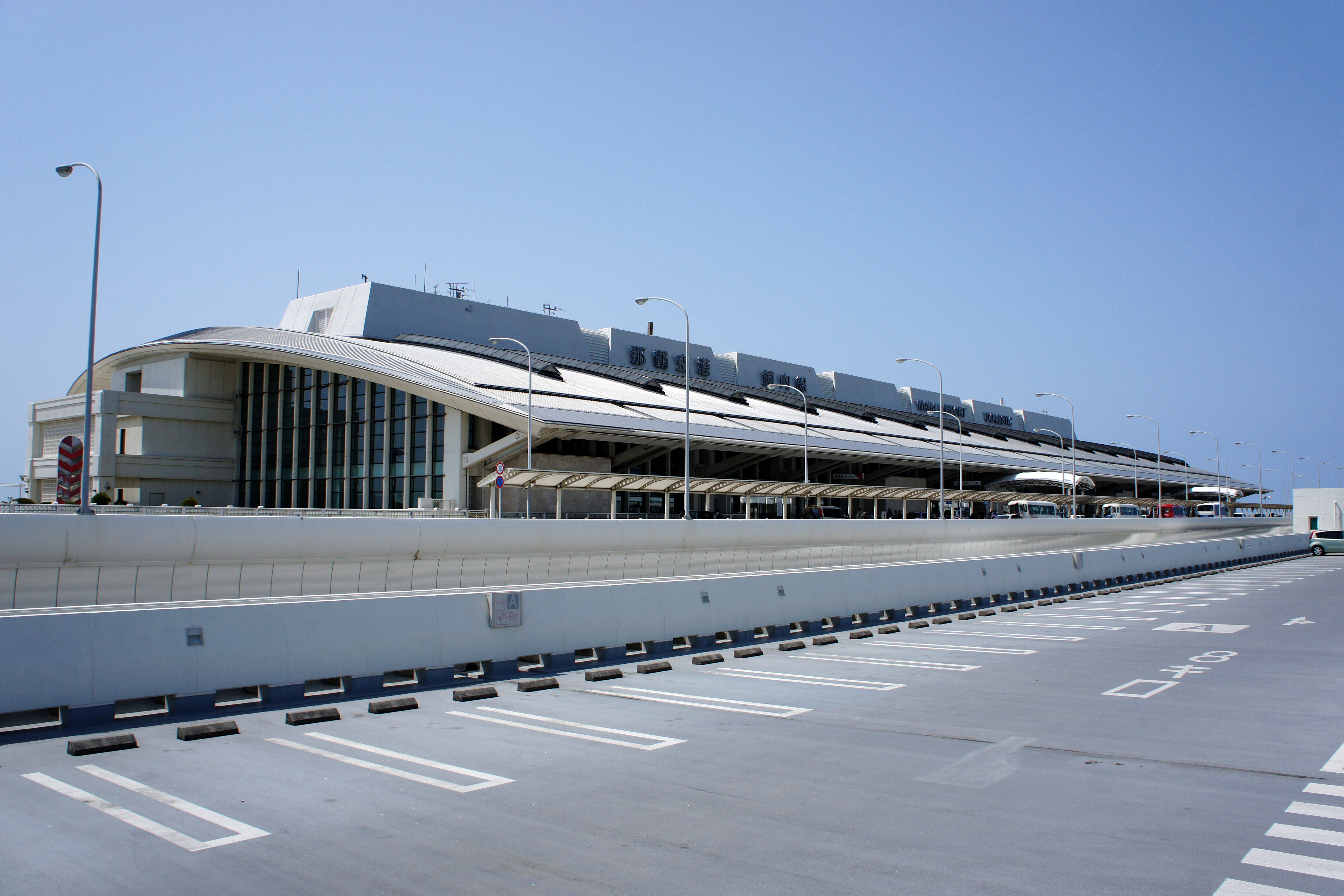 Naha Airport, Naha, Okinawa prefecture, Japan